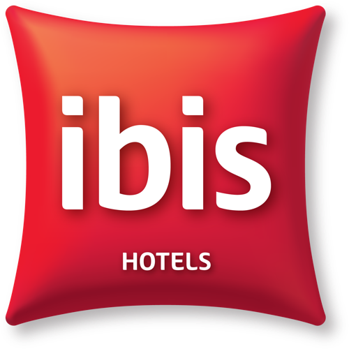 Logo of Ibis